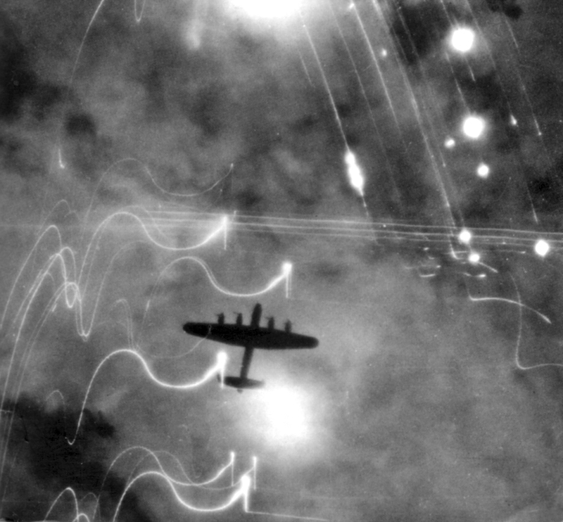 Lancaster over Hamburg, Germany.